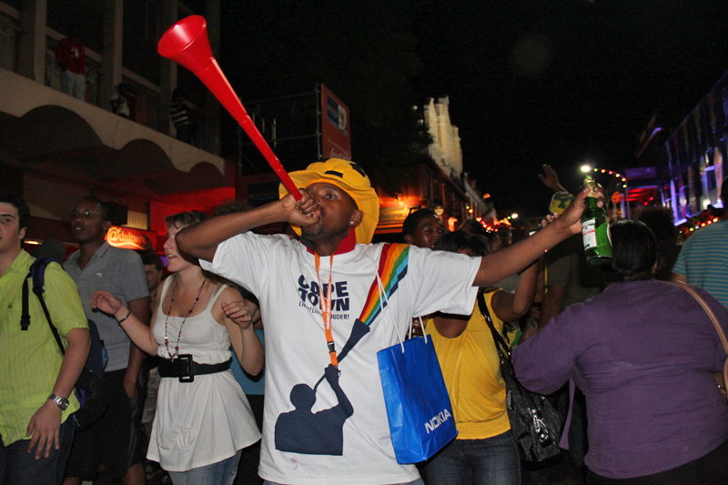 Man blowing a vuvuzela, Cape Town, South Africa